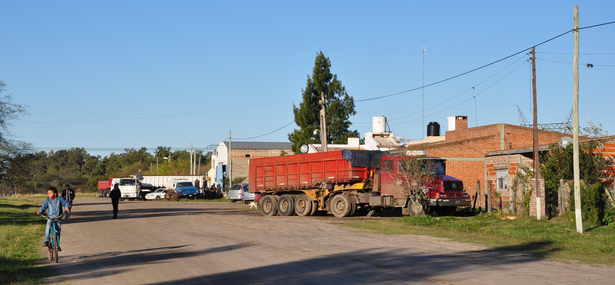 Scene in Ceibas, a village in the Province Entre Ríos (Argentina) which is split in two halves by Ruta Nacional 12 (RN 12). Ruta Nacional 14 starts here.